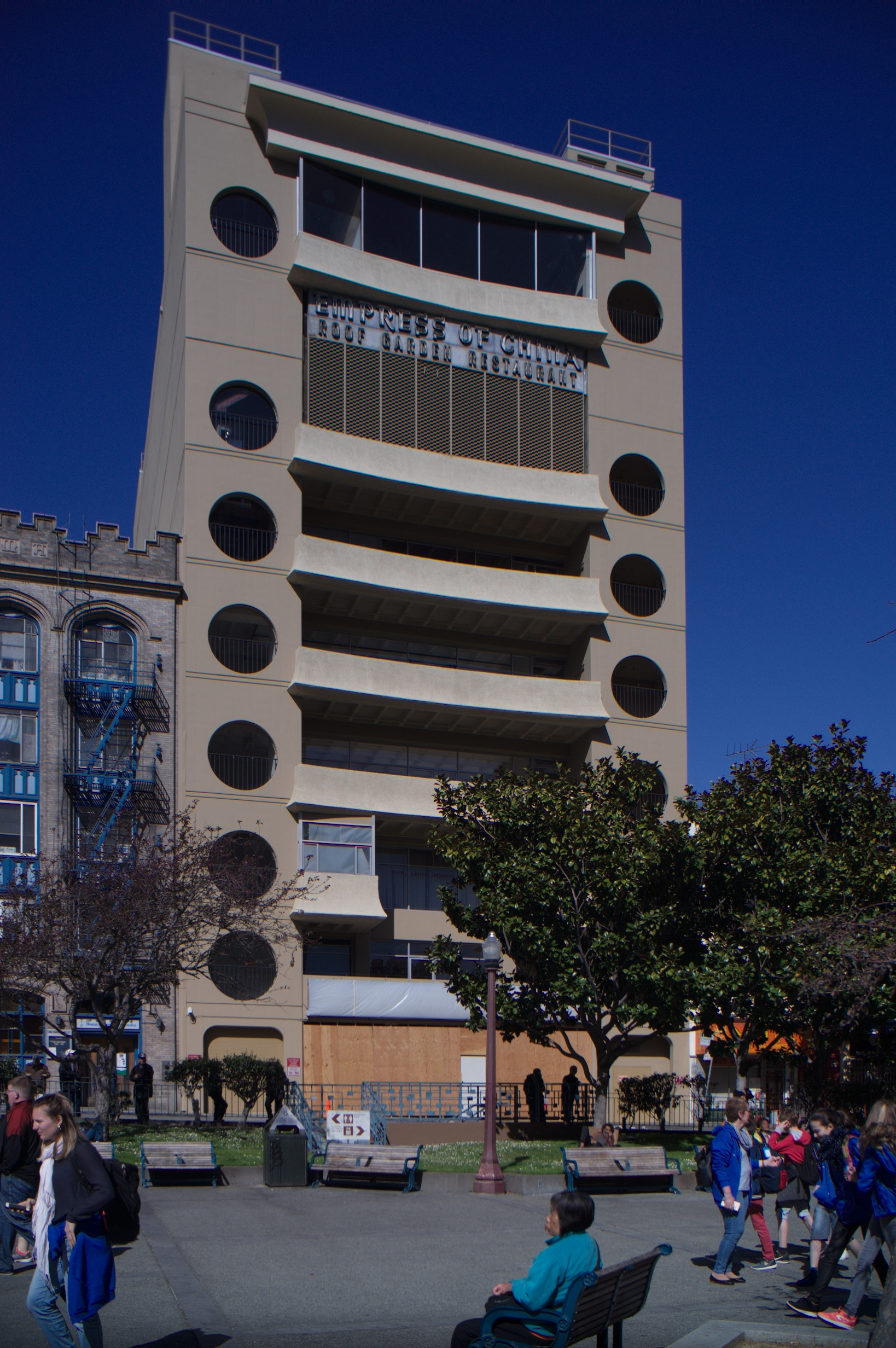 Empress of China has been shut down since 2014. The ground-level occupant looks like they're ready to close up shop as well.